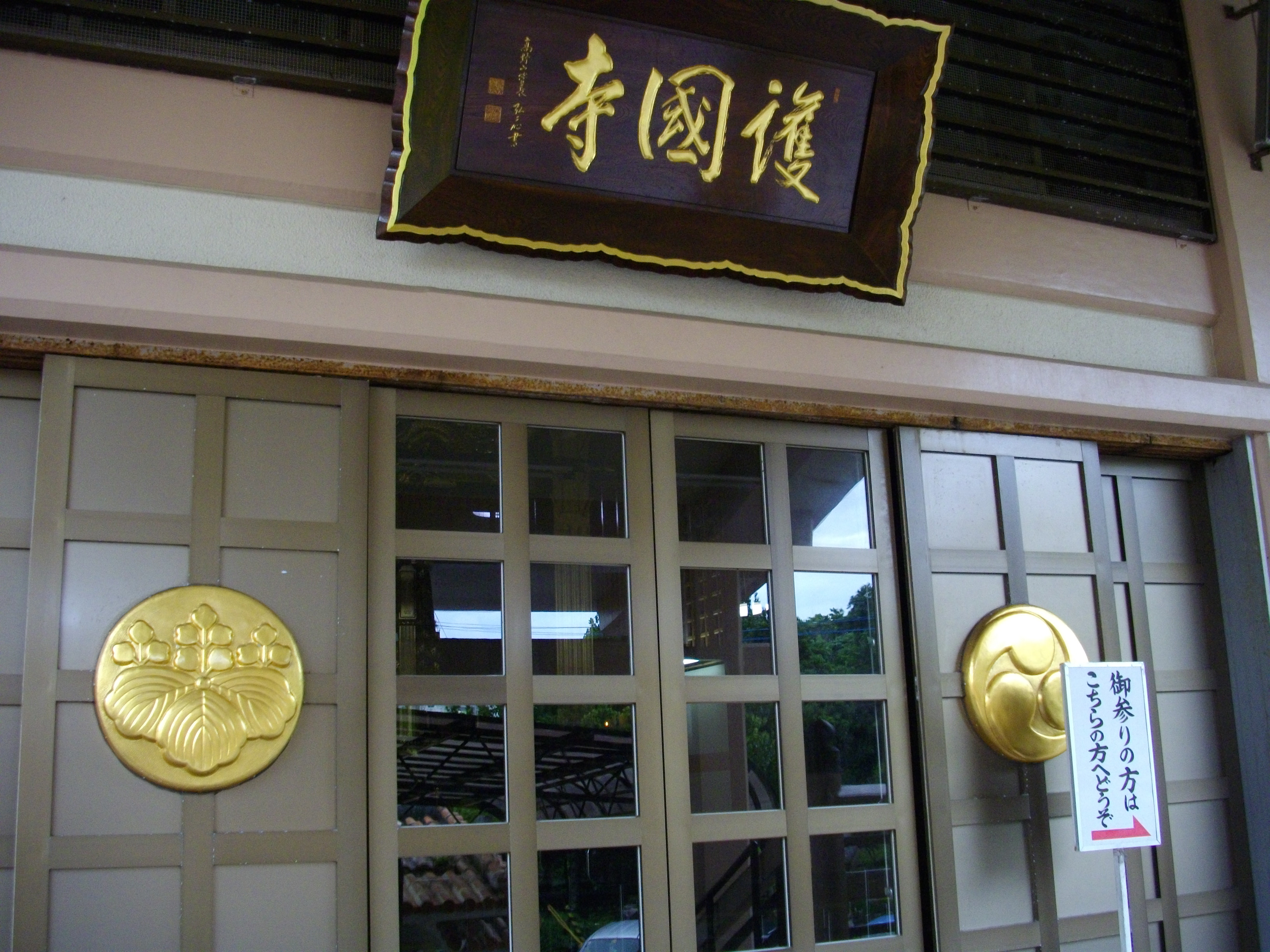 Entrance to main hall at Gokoku-ji temple in Okinawa. Photo taken by LordAmeth.